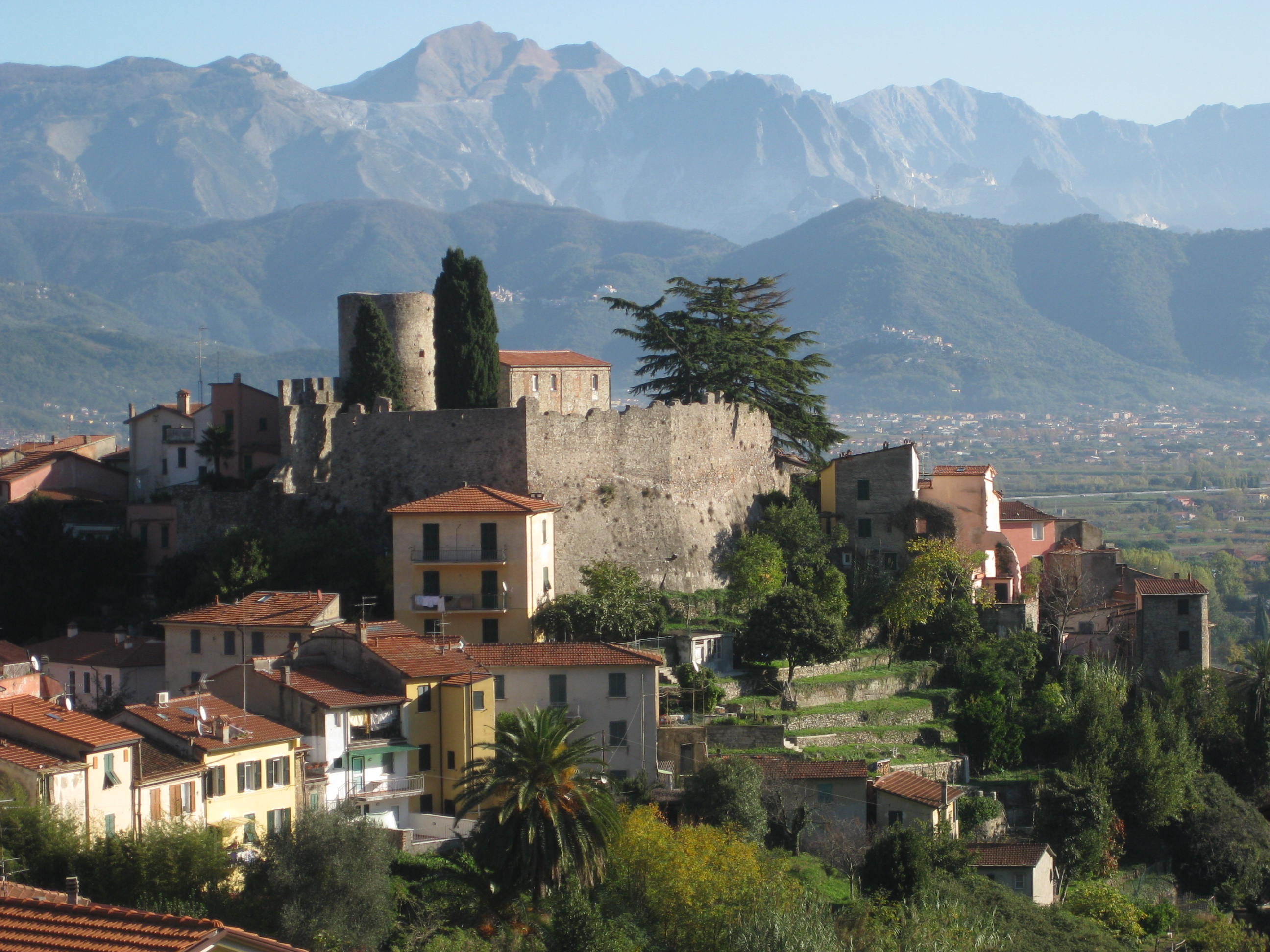 Ameglia (SP) Italy. Region of Liguria. Ameglia Castle and Tower. Historic Center of Ameglia.